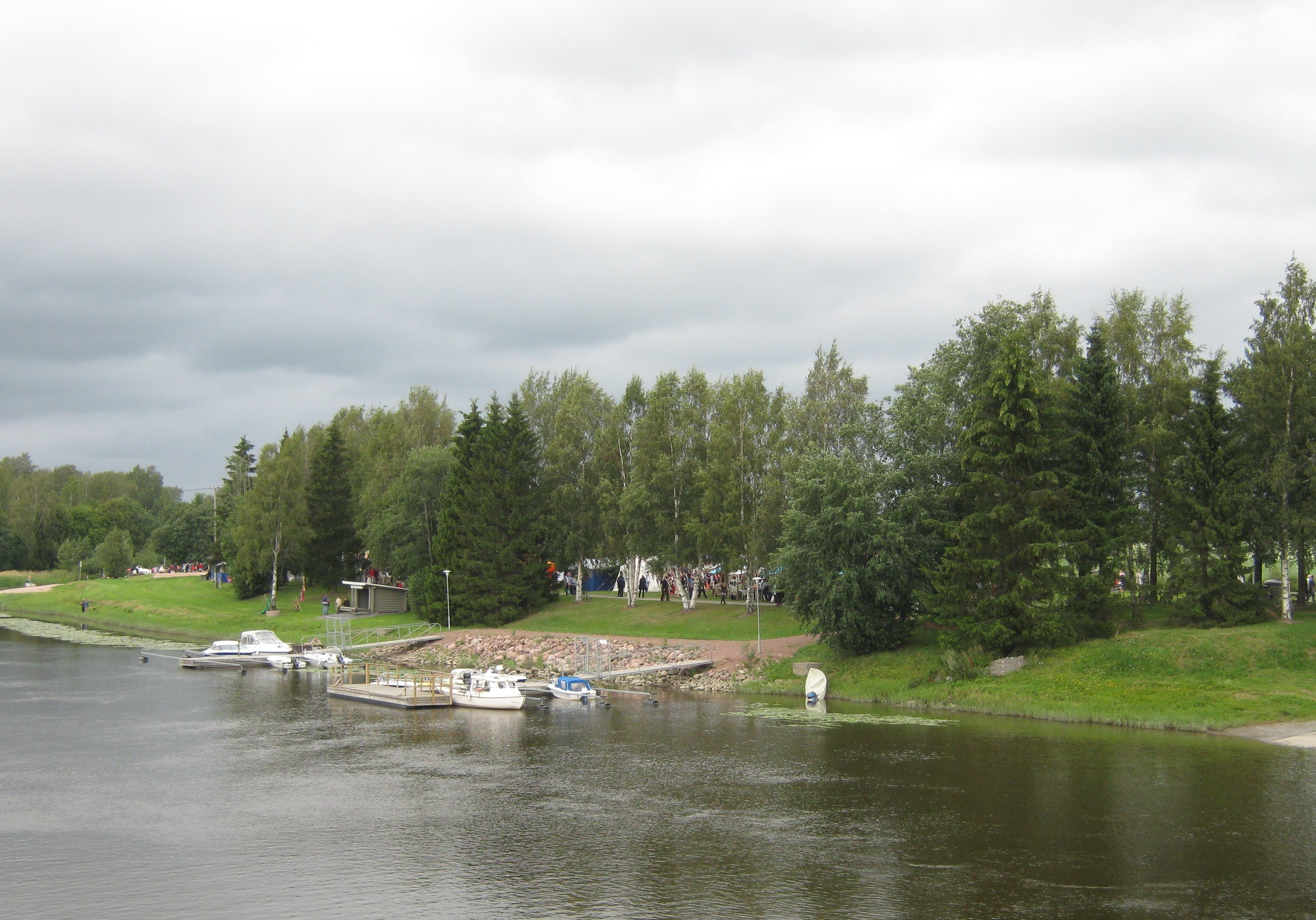 Hansasatama marina by river Kokemäenjoki, Ulvila, Finland.